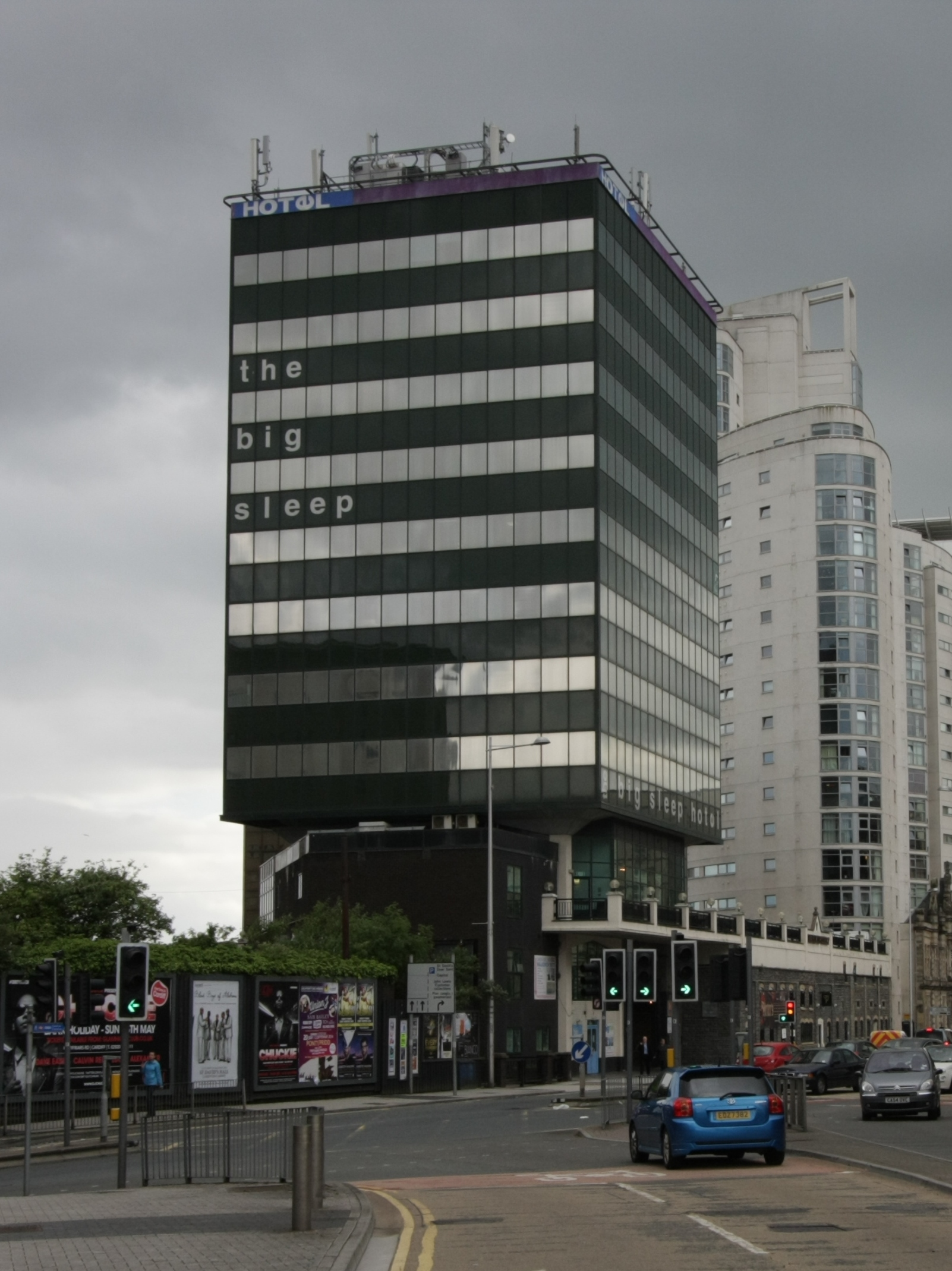 The Big Sleep Hotel, Bute Terrace, Cardiff. Photographed from Churchill Way. Formerly Snelling House, headquarters of Wales Gas. Built 1966. Architect: Alex Gordon.